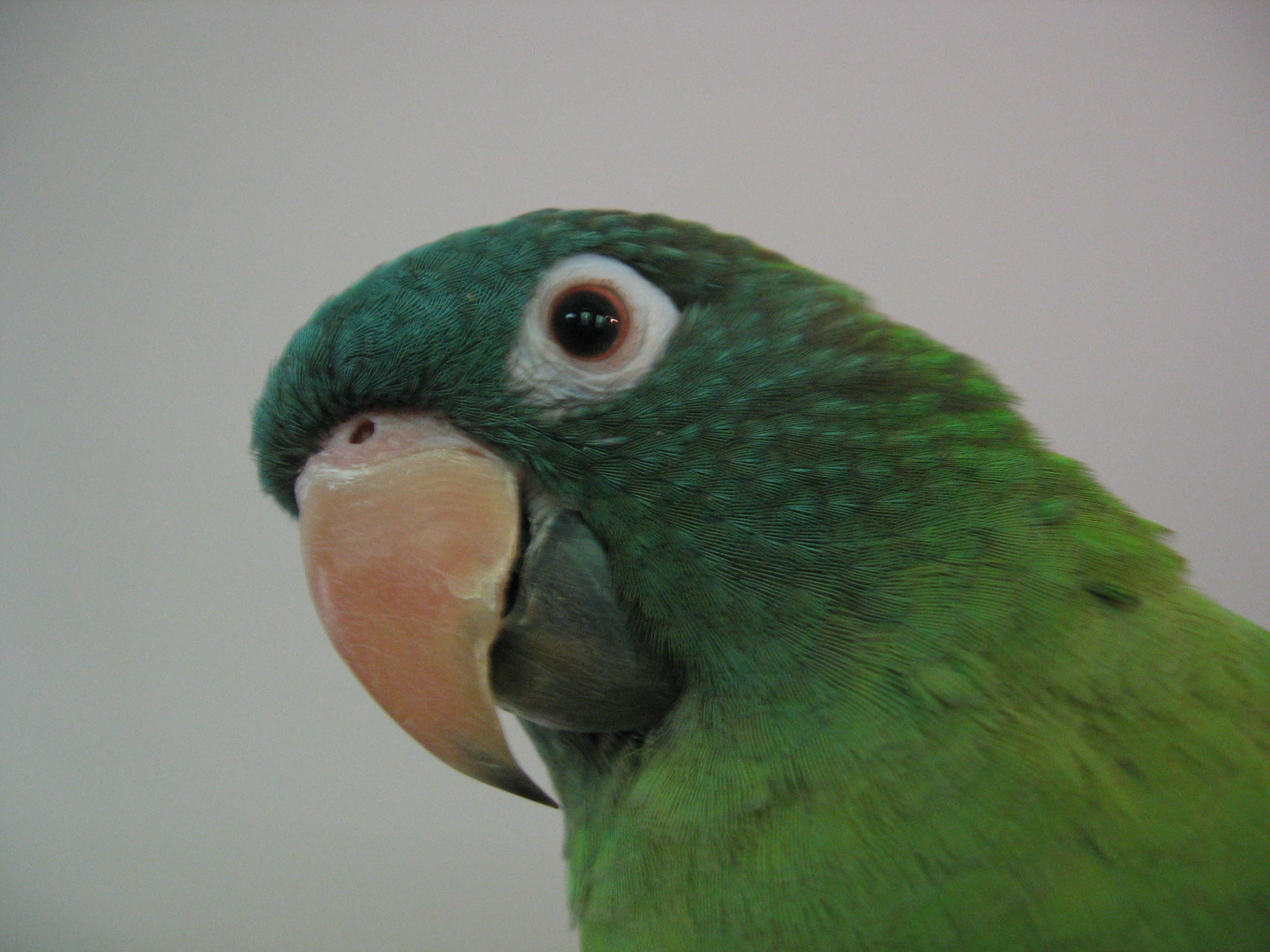 Blue-crowned Parakeet, Blue-crowned Conure, or sharp-tailed conure (Aratinga acuticaudata). Head, face and neck closeup.Aren't I beautiful, Dahling?